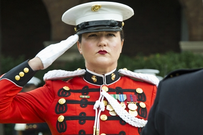 US Marine Band vocalist Sara Sheffield (née Dell'Omo) pictured in 2017